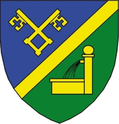 Coat of arms of Moosbrunn, Lower Austria